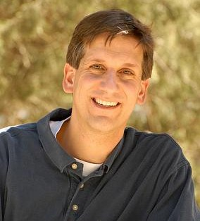 Vincent Sheheen, Democratic member of the South Carolina State Senate